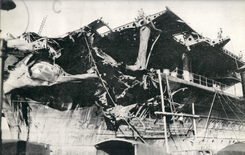 Damage to the Imperial Japanese Navy aircraft carrier Shokaku sustained on May 8, 1942 during the Battle of the Coral Sea.